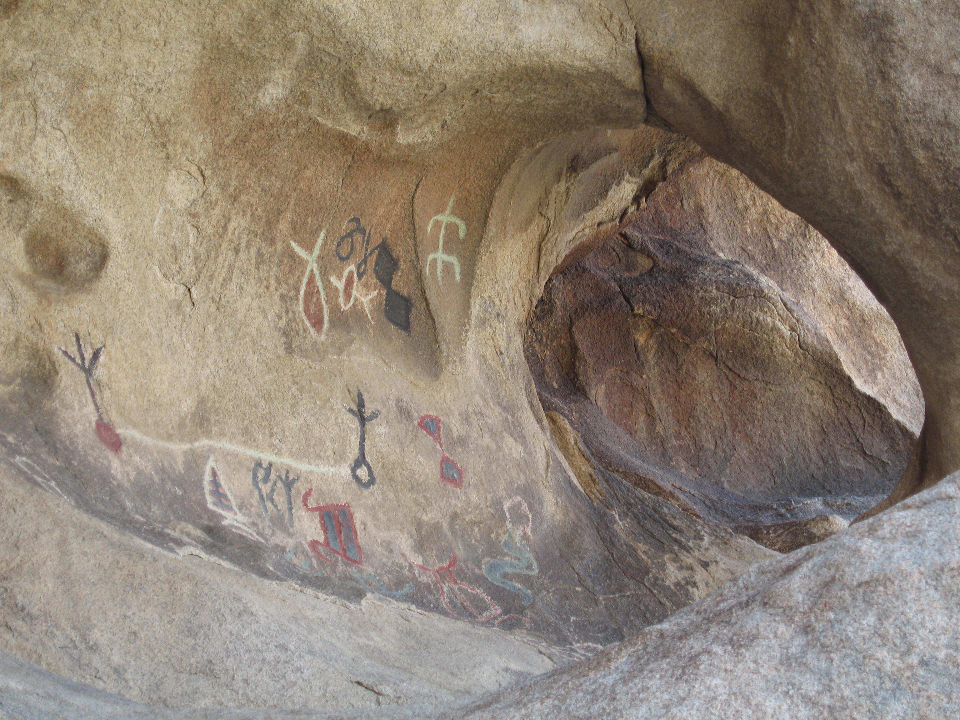 Barker Dam in Joshua Tree National Park: Rock art; Barker Dam Trail